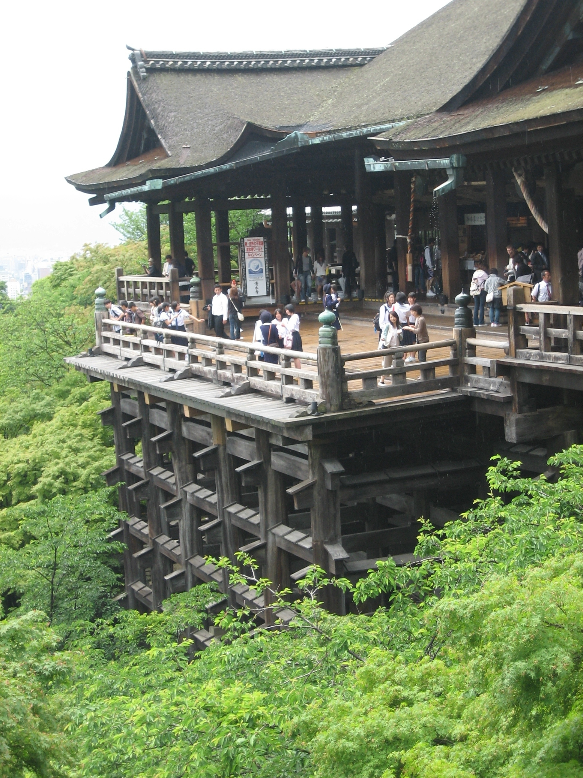 Terrace of Kiyomizu-dera temple in Kyoto, Japan, showing wooden support construction